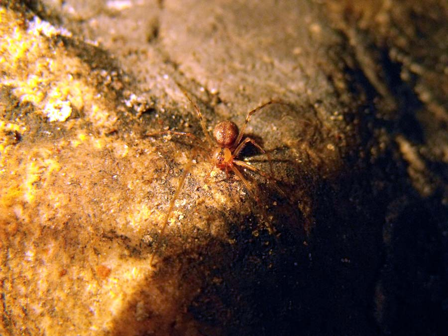 Nesticus eremita photographed in Grotta dei Bambocci cave, near Collepardo, Alatri, Frosinone province, Latium, central Italy. Photo by Marcelli Massimiliano.